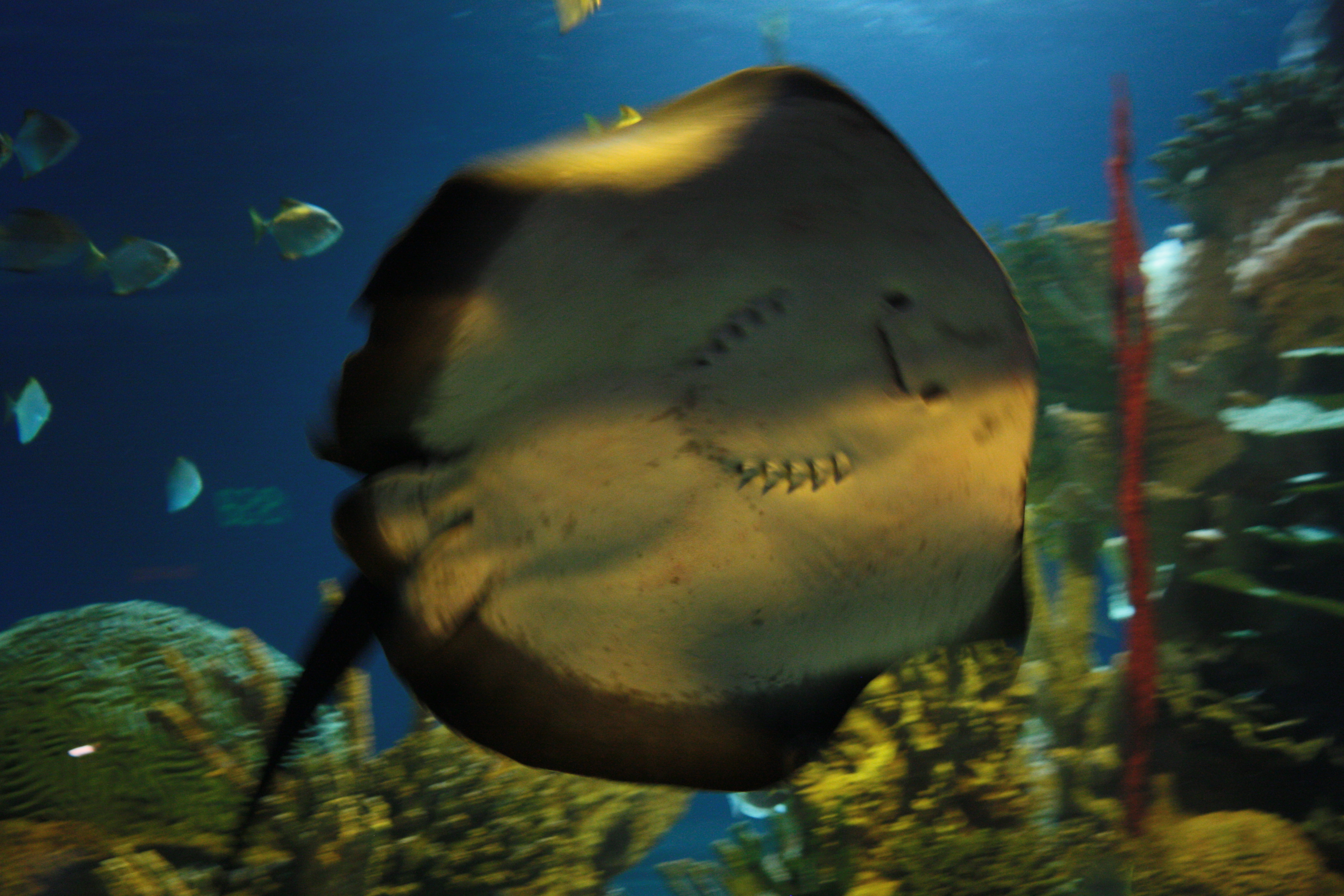 Electric incline to Saint-Petersburg Oceanarium. Street Marata 88.